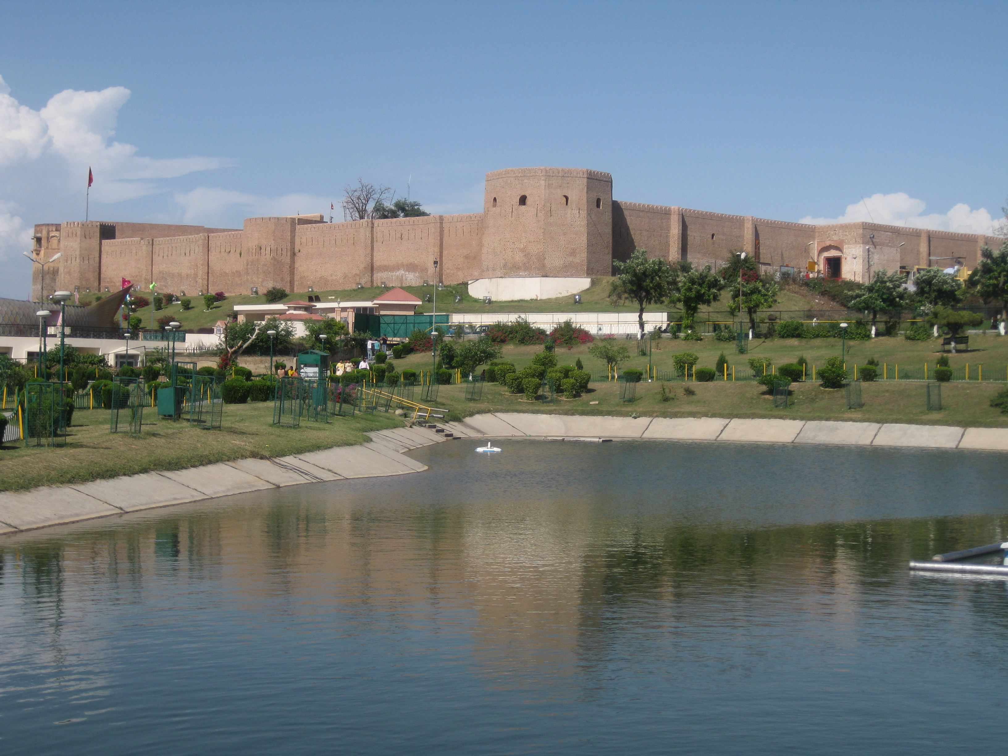 The fort structure is located at an elevation of 325 metres (1,066 ft), opposite to the old town of Jammu.It has eight octagonal towers or turrets connected by thick walls.